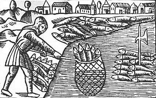 Woodcut depicting herring fishing in Scania